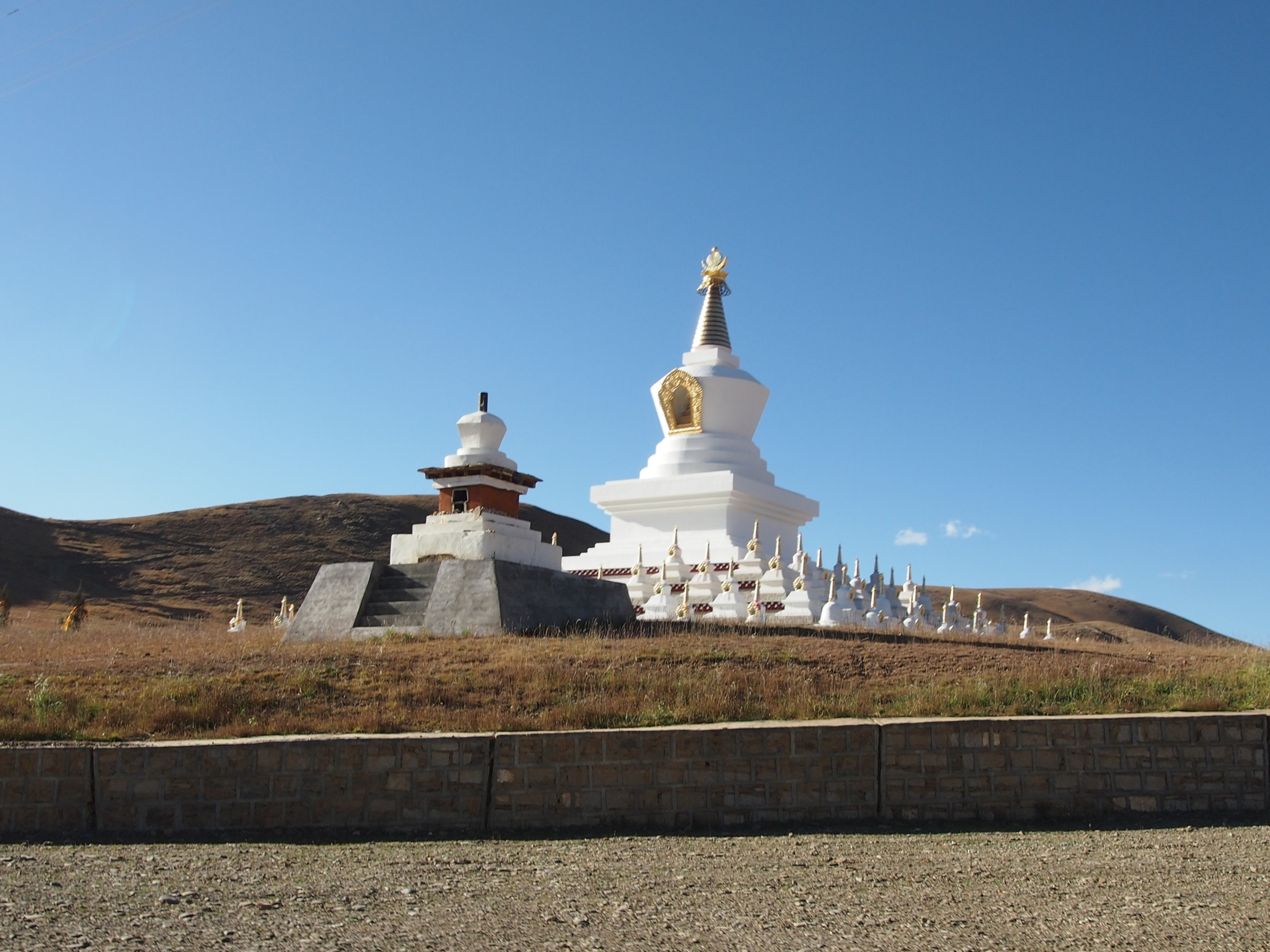 稻城白塔 - White Pagoda in Daocheng County - 2012.10